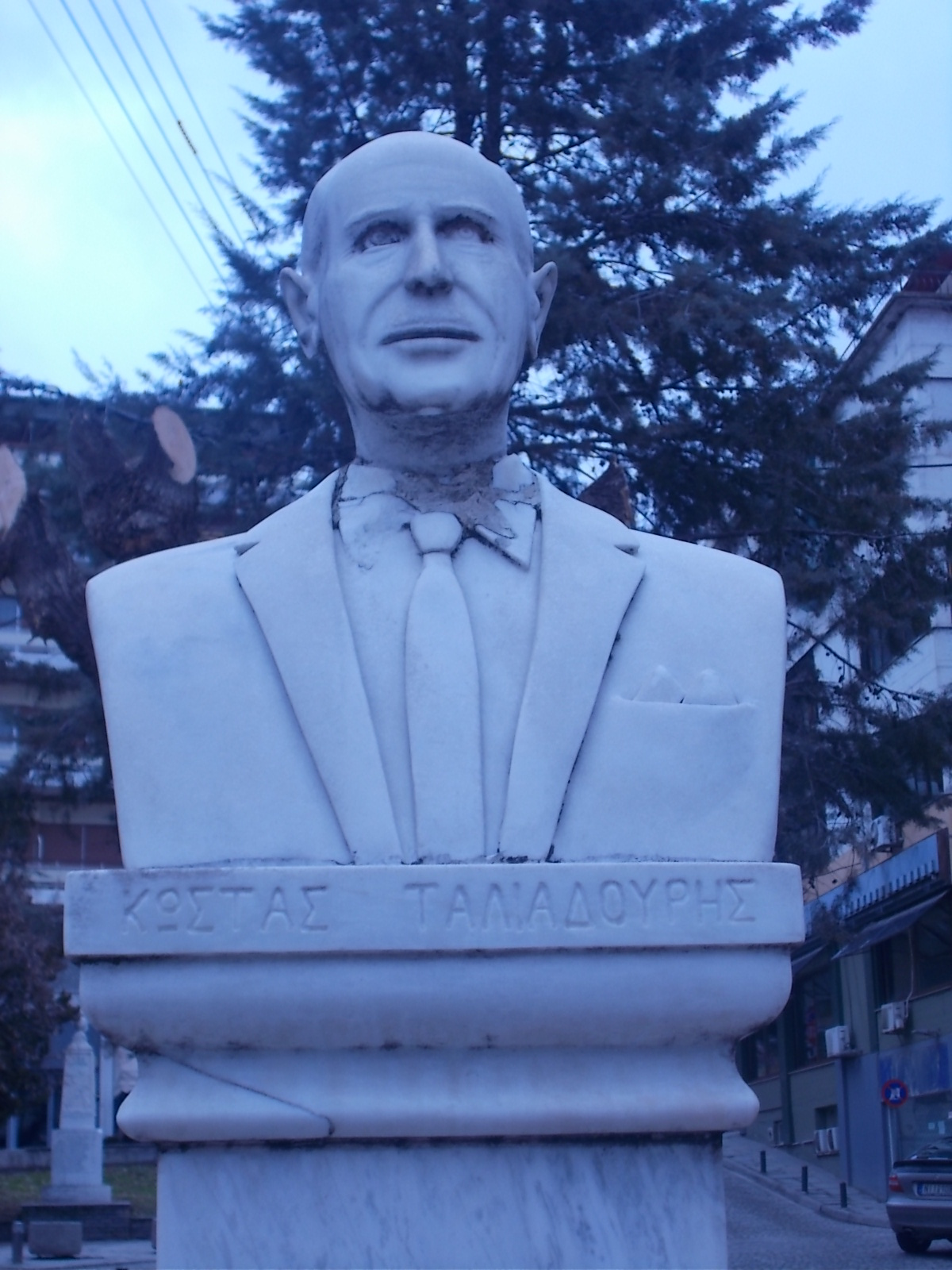 Κωνσταντίνος Ταλιαδούρης